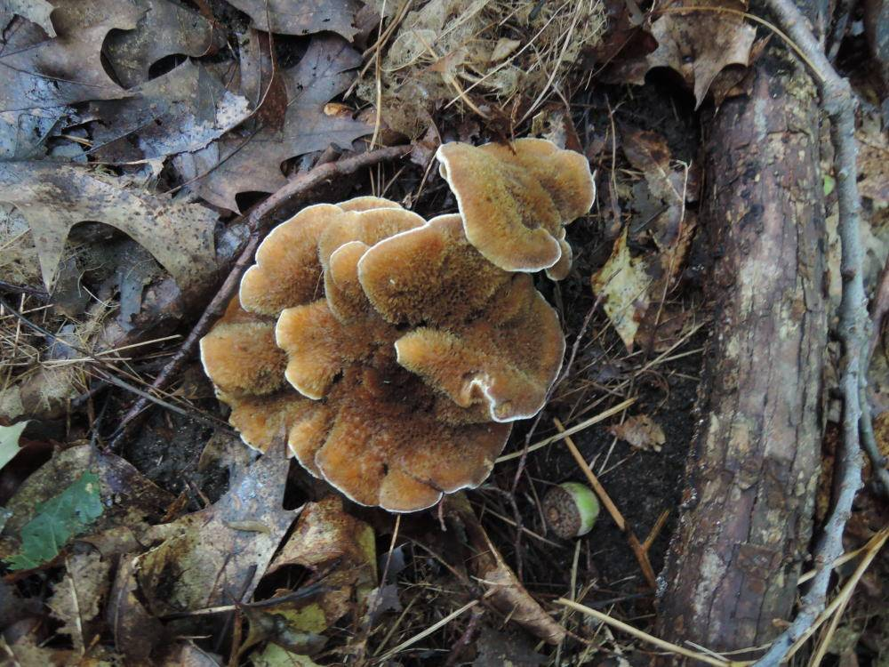 Top surface of a fruit body of the tooth fungus Hydnellum multiceps. Photographed in Tobermory, Ontario, Canada.